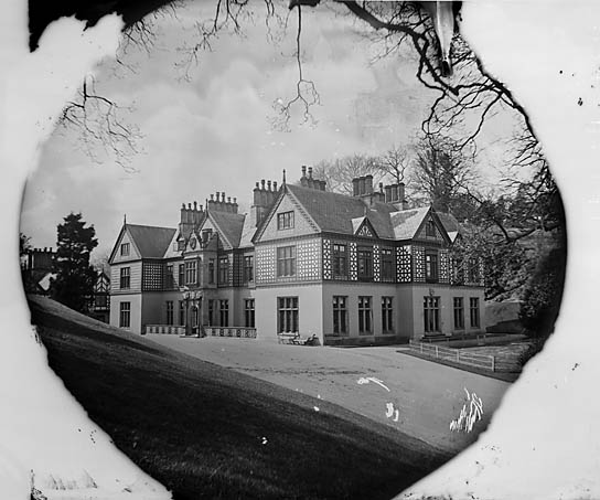 1 negative : glass, wet collodion, b&w ; 16.5 x 21.5 cm.